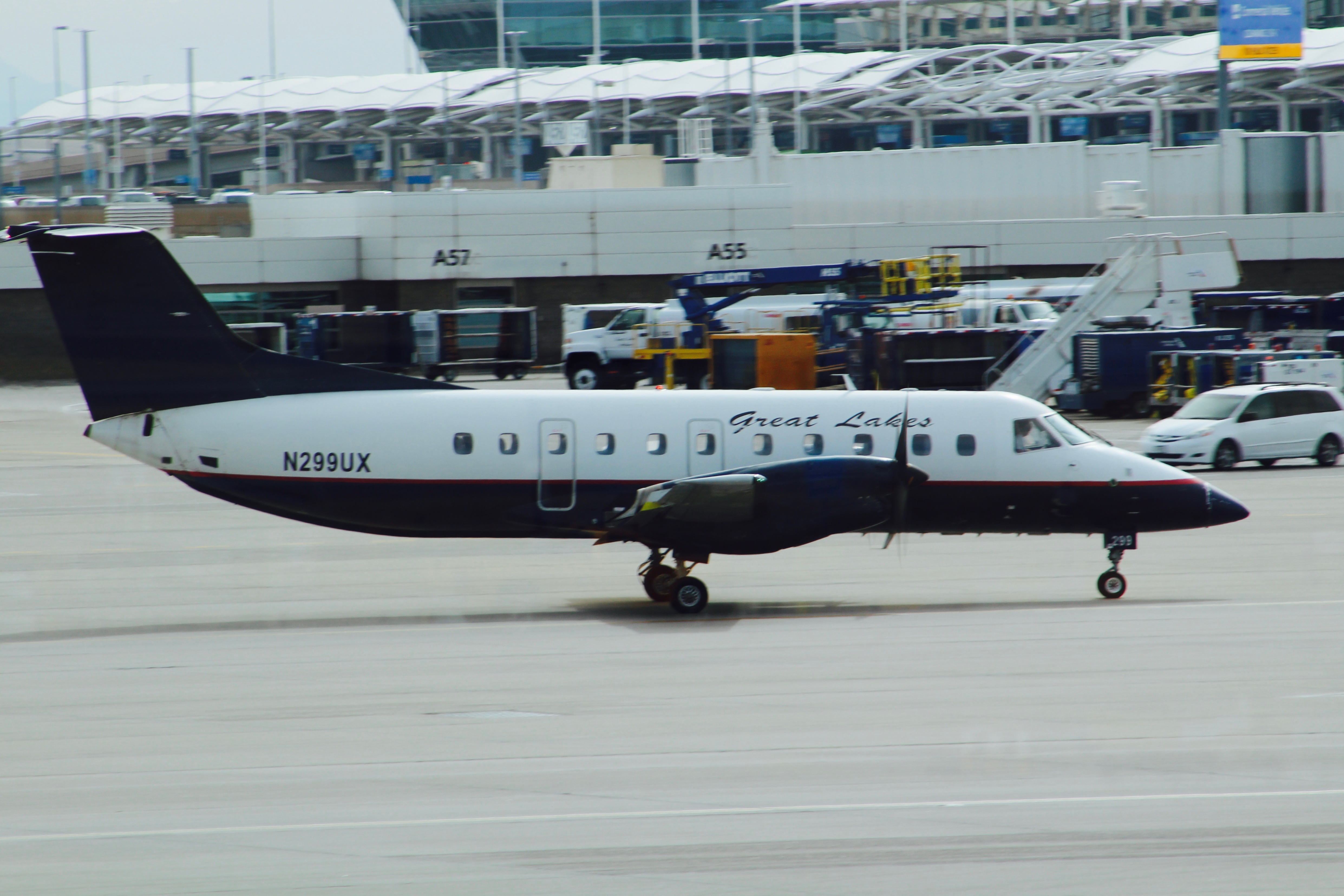 A Great Lakes Embraer 120 at Denver Internatioal Airport (photo by )